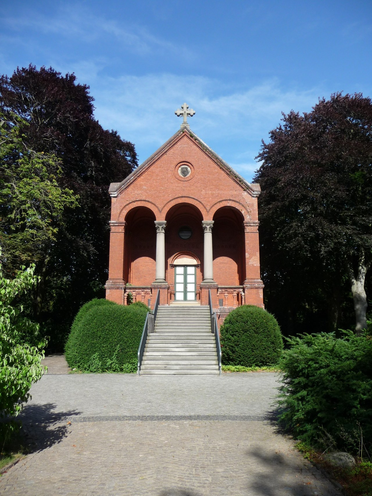 Chapel on the cemetery in Bremerhaven-Wulsdorf